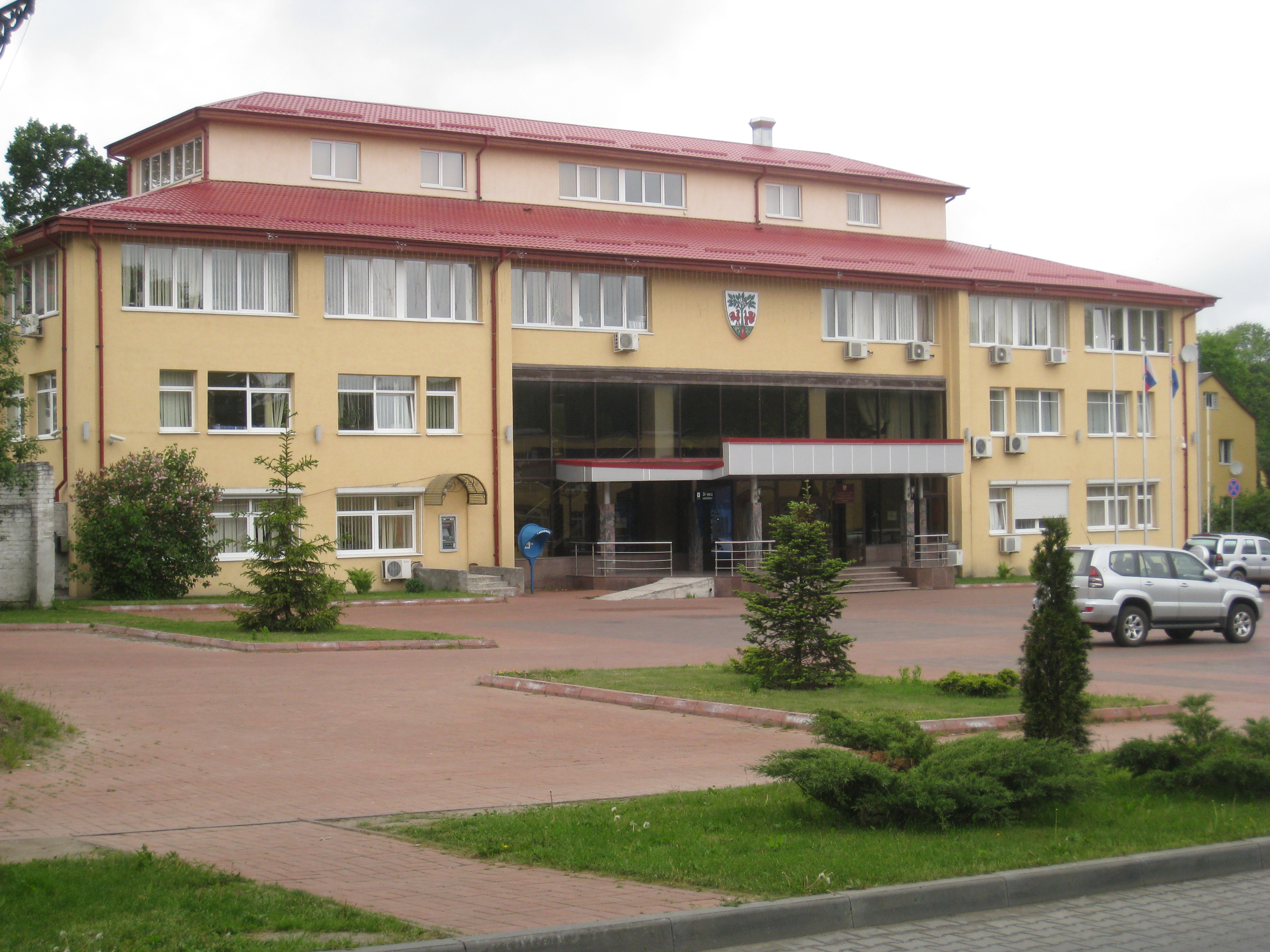 New building of administration of Guryevsk